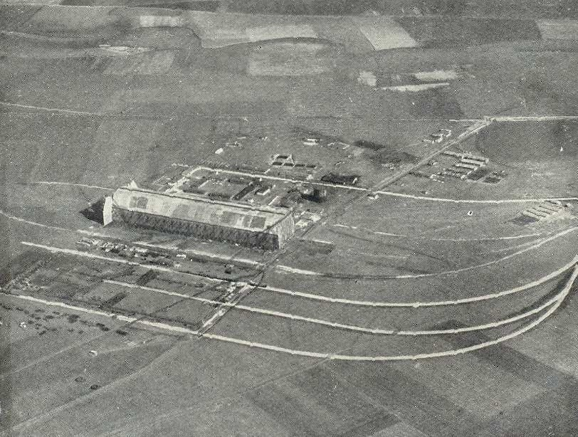 Bird's eye view of Yambol Airship port in Bulgaria. Turkey and Bulgaria were then allied with Germany and provided bases for airship missions in the Mediterranean.